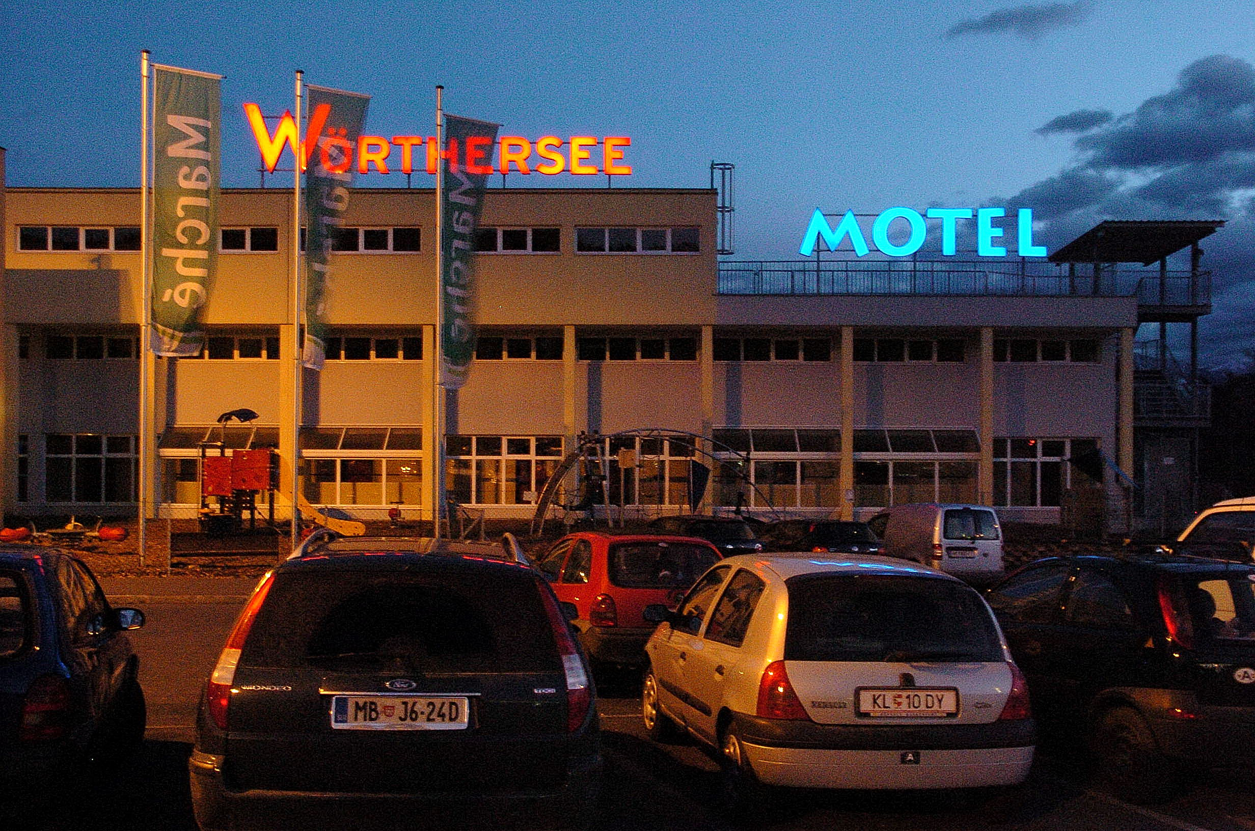 Autobahn motel "Lake Worth" at Techelsberg, Carinthia, Austria